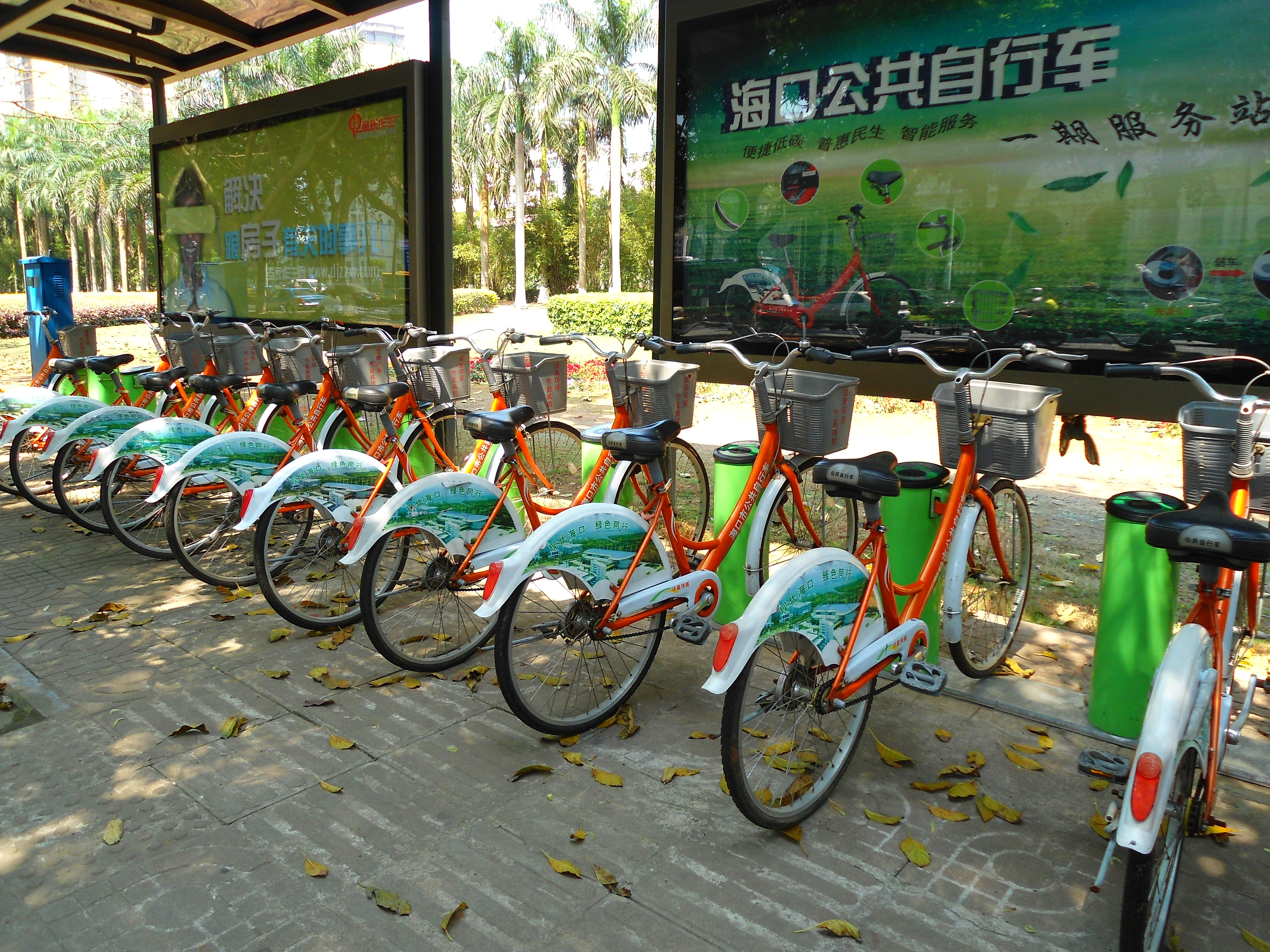 Rental bicycles in Haikou, Hainan Province, People's Republic of China